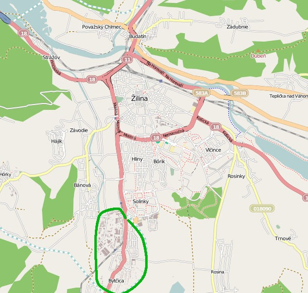 Zilina-Bytcica map location